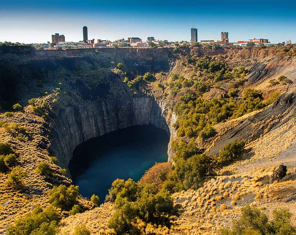 The Big Hole, Open Mine or Kimberley Mine. South Africa, the largest hole excavated by hand. On Horizon is the city of Kimberley (capitol of Northern Cape), the black building is De Beers headquarters, one of the worlds biggest diamond concerns.